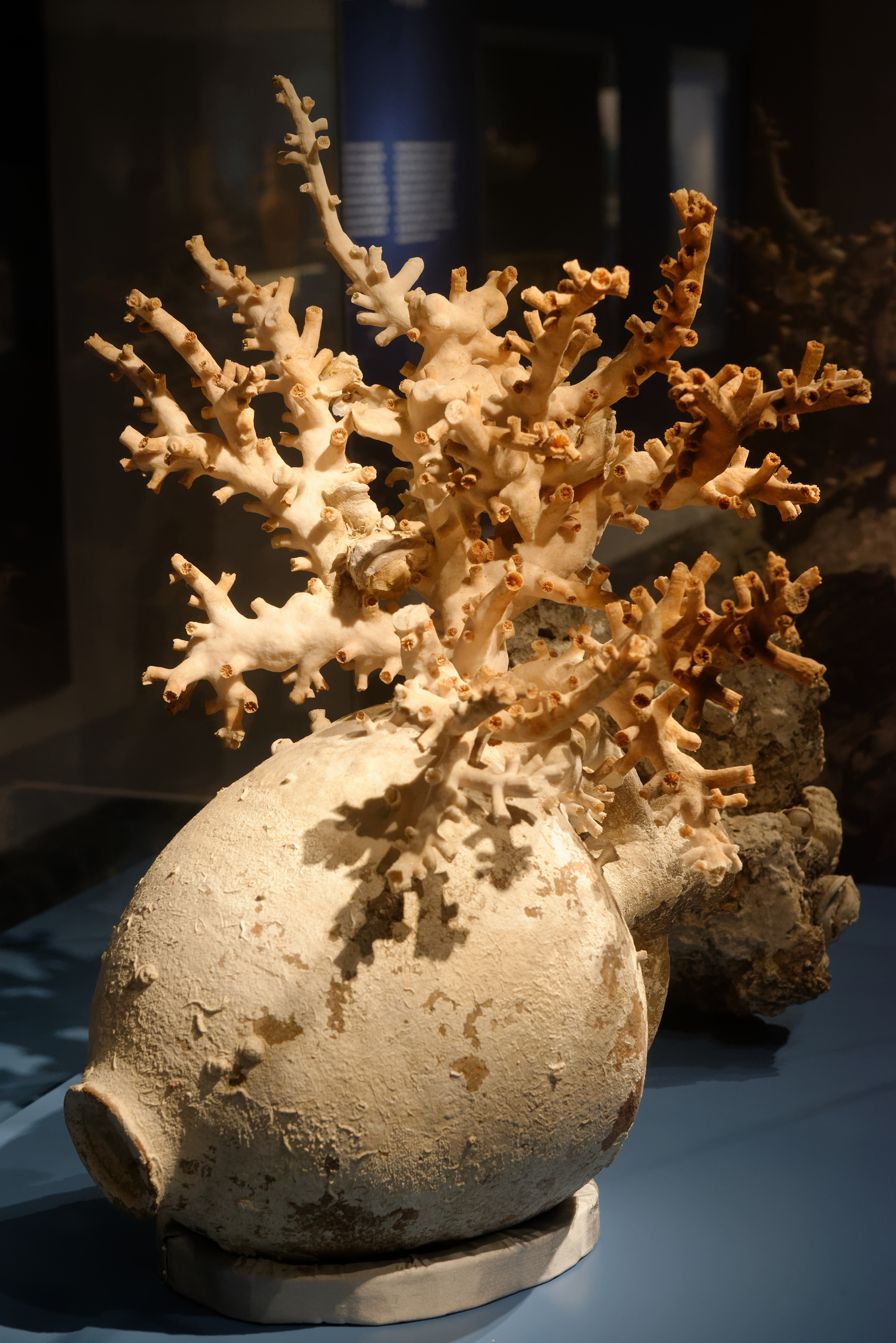 Amphora of the Riley MRA-1 type with red-coral growth from the Levanzo I shipwreck.